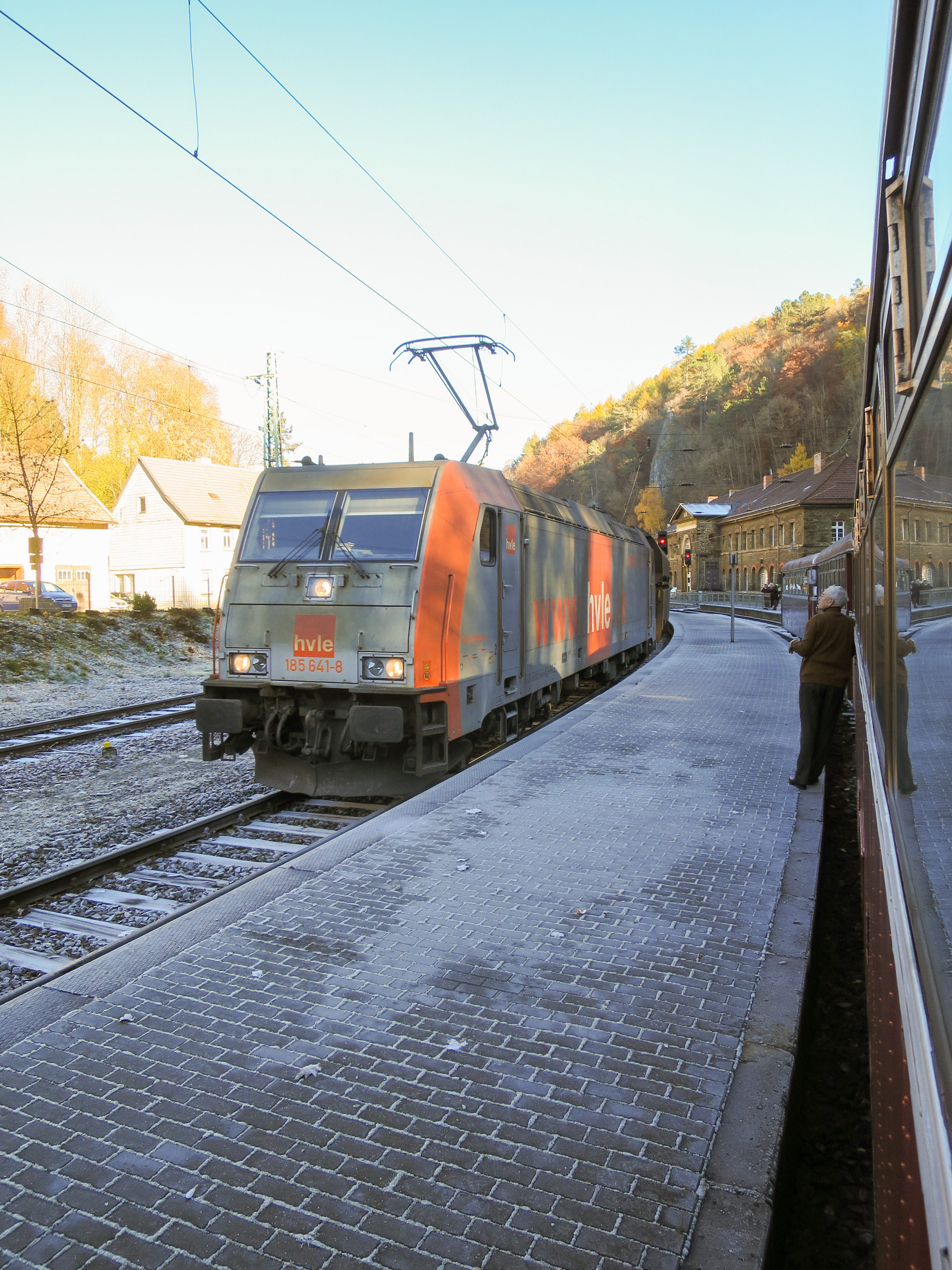 Cargo Train in Rübeland station